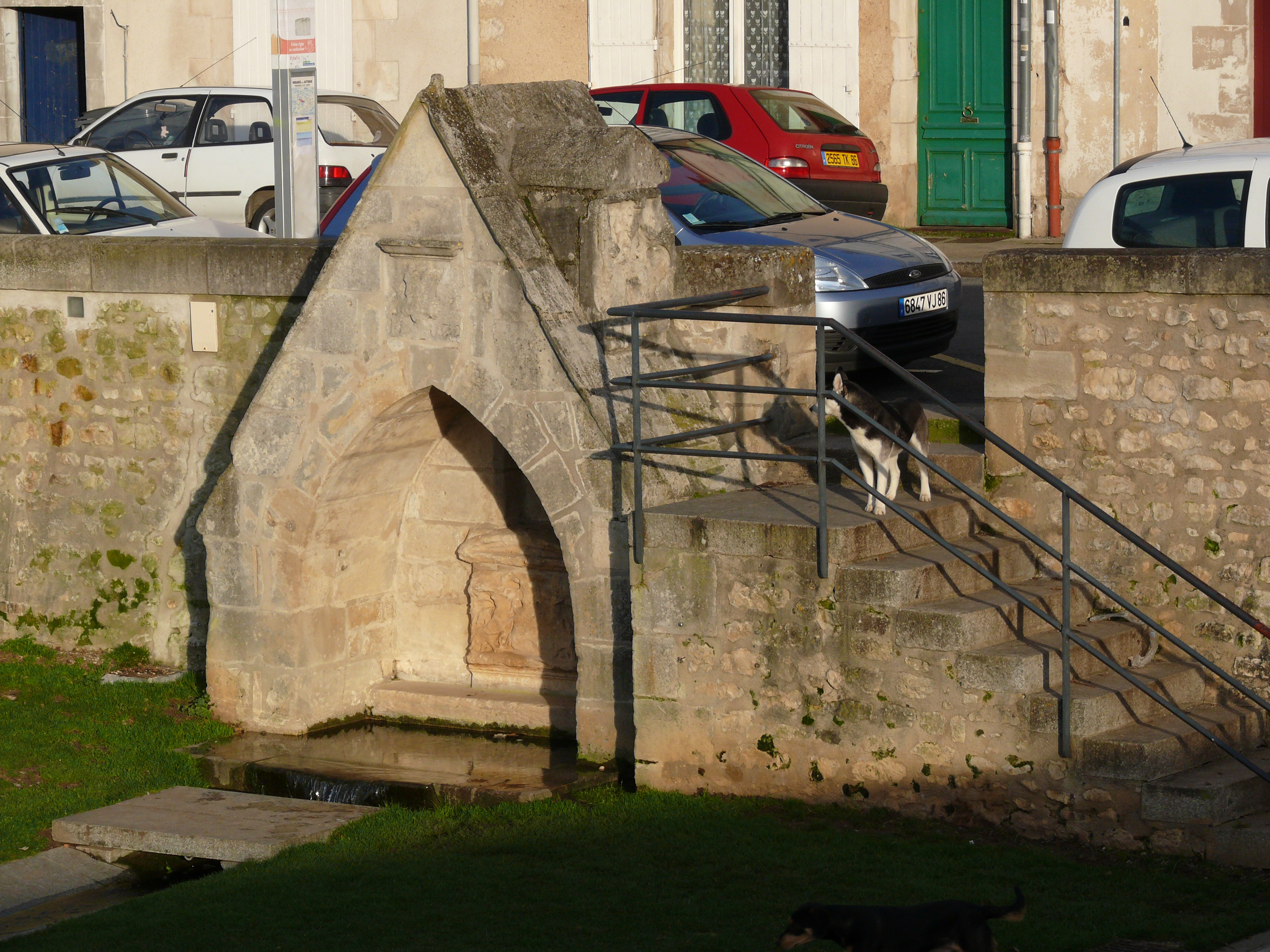 15th century fountain, next to the Pont Joubert, Poitiers, France